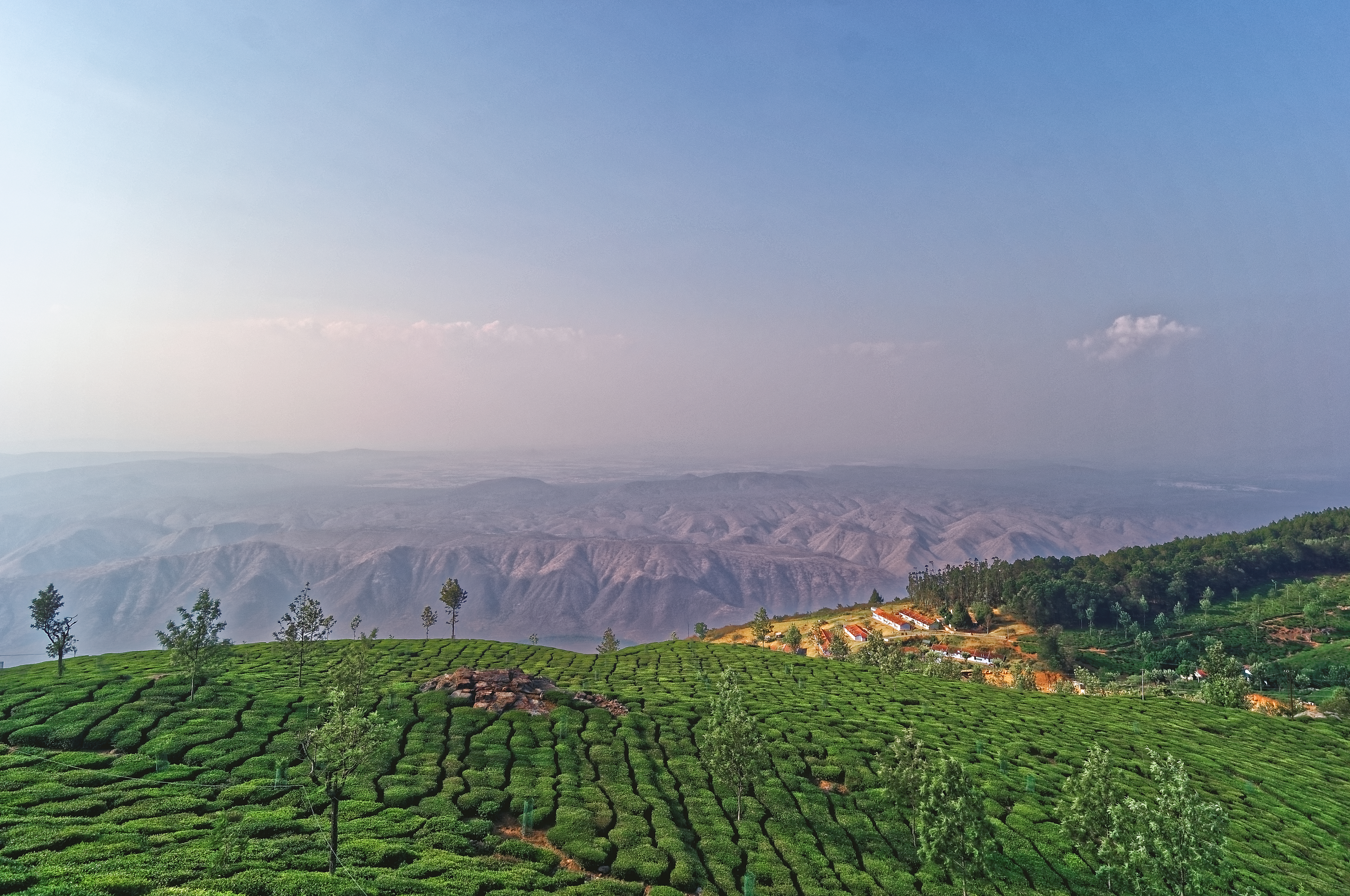 This photograph portrays the breathtaking view at Kodannad, Nilgiris.